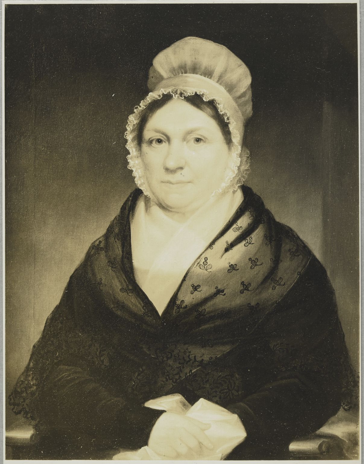 Title:Mrs. Peter Gansevoort (Catherina Van Schaick). Author/Artist:Ames, Ezra, 1768-1836 Creation Date:1788 Description:Graphic reproduction(s) with documentation of a painting. 29 1/2 x 24 1/2 in. Provenance:Inherited by the subject's son, Hon. Peter Gansevoort; his daughter, Mrs. Abraham Lansing; Ronald N. Moore; J.S. Frelinghuysen, New York; at one time, prior to January 1997, with Knoedler and Company, New York; Albany Institute of History and Art, Albany. Current Repository:Albany Institute of History and Art, Albany, New York, United States, public.